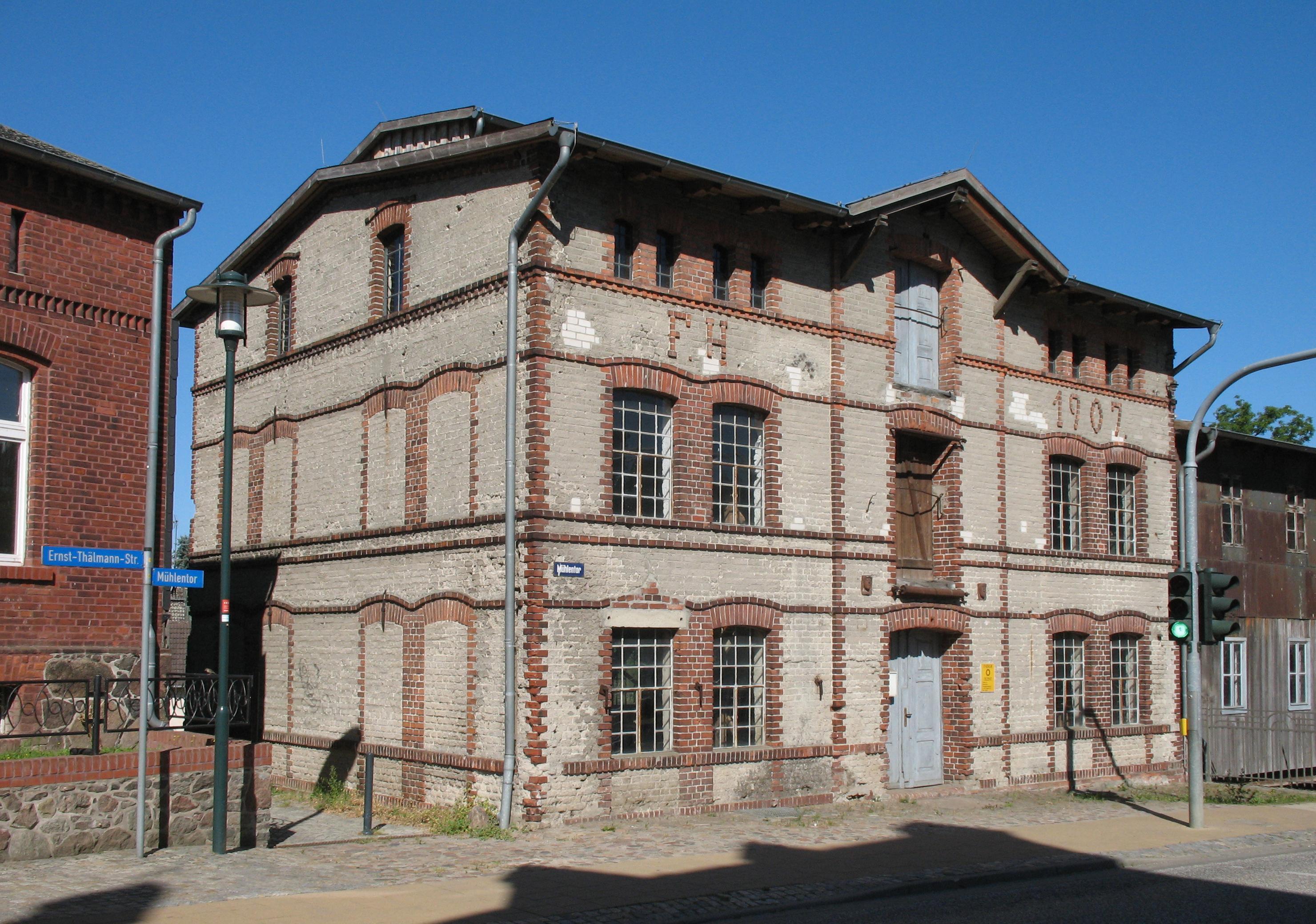 Watermill in Putlitz in Brandenburg, Germany